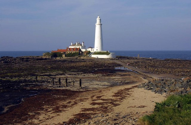 St Mary's lighthouse at Whitley Bay